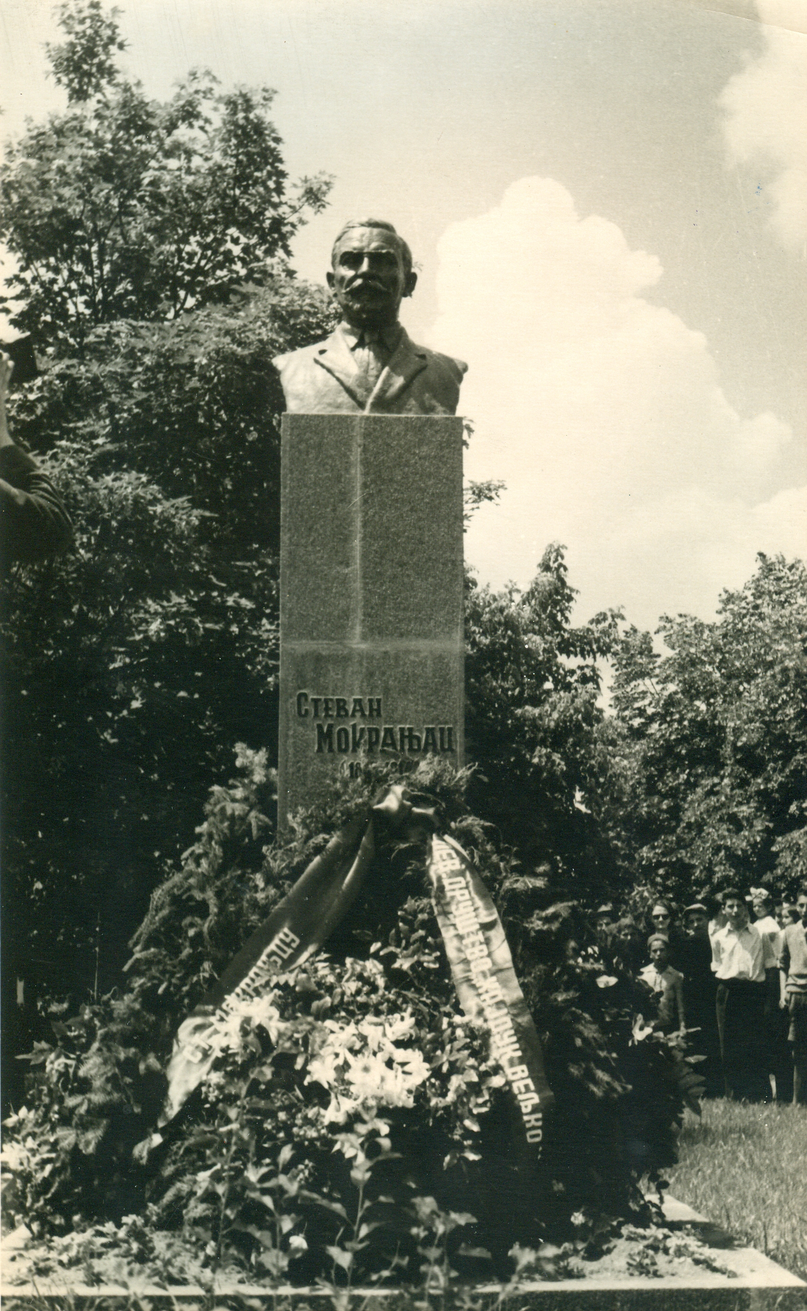 Monument to Stevan Mokranjac in Negotin, work of sculptor Milovan Krstic Srpski (latinica): Spomen bista Stevanu Mokranjcu u Negotinu, rad vajara Milovana Krstića, postavljena u gradskom parku 1939. godine